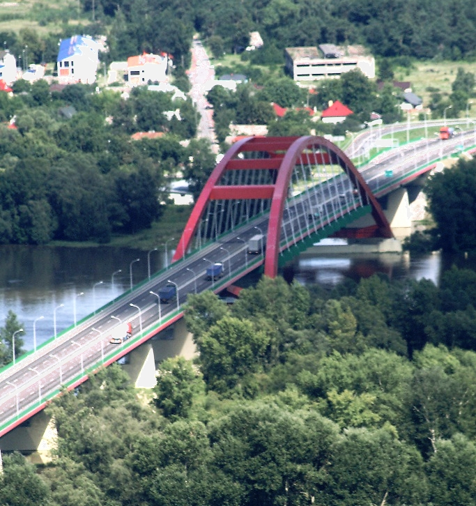 The John Paul II Bridge - Vistula River, Pulawy, Poland